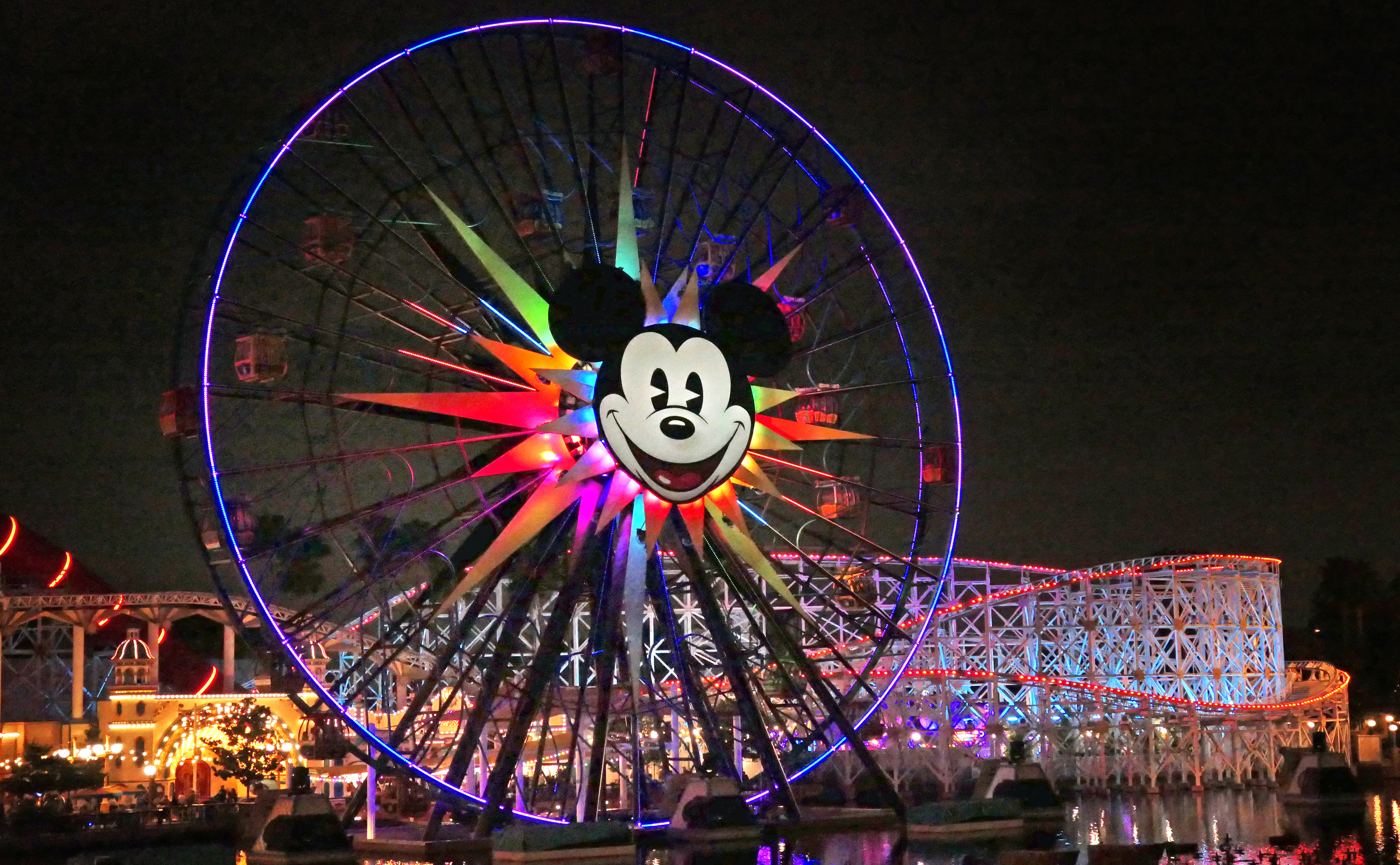 It is pretty hard to miss the Huge Ferris wheel that dominates Dinsey California Adventure’s skyline. The Huge Mickey smiling down on all guest lets you know you are definitely at Disneyland! But Ferris wheels are pretty old hat so most people, especially thrill-seekers may decide to skip this lumbering relic, especially as it has no Fast Pass and queues can be quite long. Is this a wise choice hpwever? Find out with or Pixar Pal-A-Round Review. Location – Disney California Adventure – Pixar Pier Type – Ferris Wheel – 160ft Duration – 9:00+ Mins Height Restriction – None Average Queue time – 10 mins – 40 Mins Fastpass – No Single Rider – No Additional Info – Not your usual Ferris Wheel